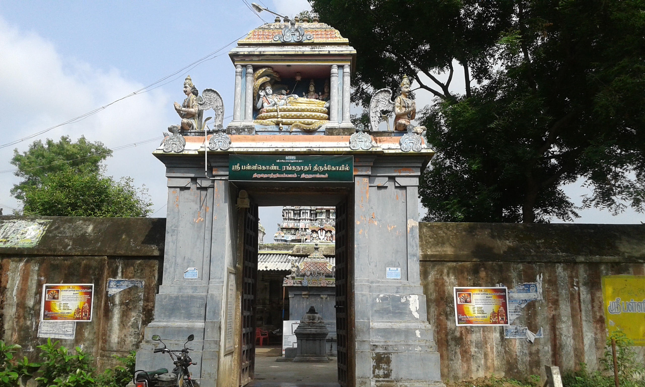 Thiruthetriyambalam